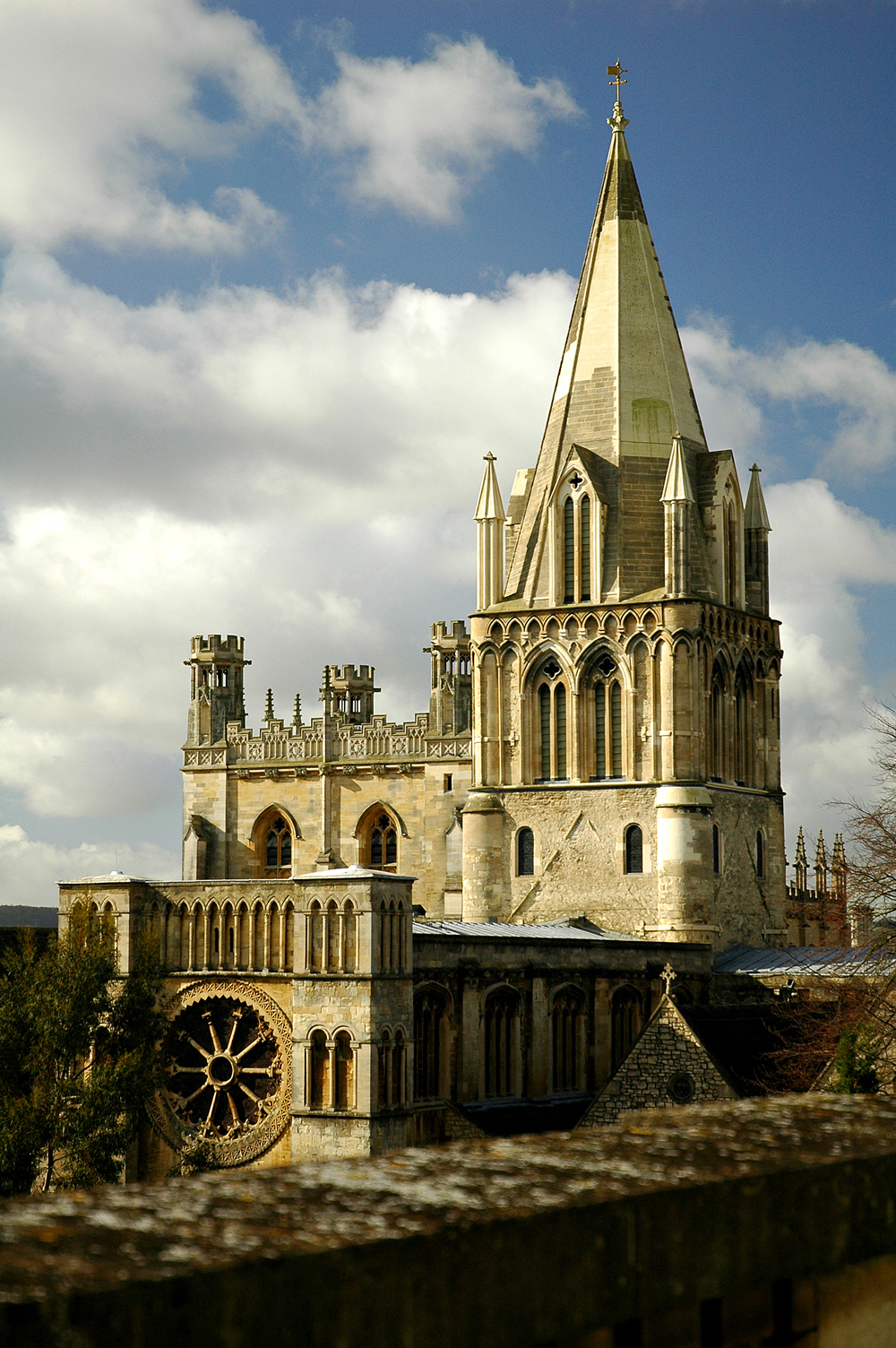 Christ Church Cathedral, the cathedral of the diocese of Oxford, which includes the City of Oxford, England, and the surrounding countryside as far north as Banbury. It is also, uniquely, the chapel of Christ Church, the largest college of the University of Oxford.